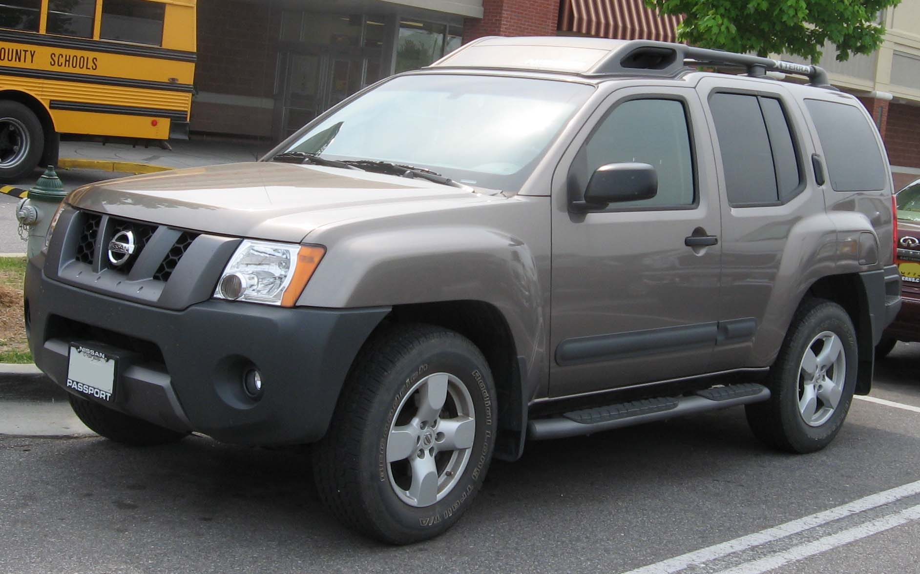 2005-2007 Nissan Xterra photographed in USA.